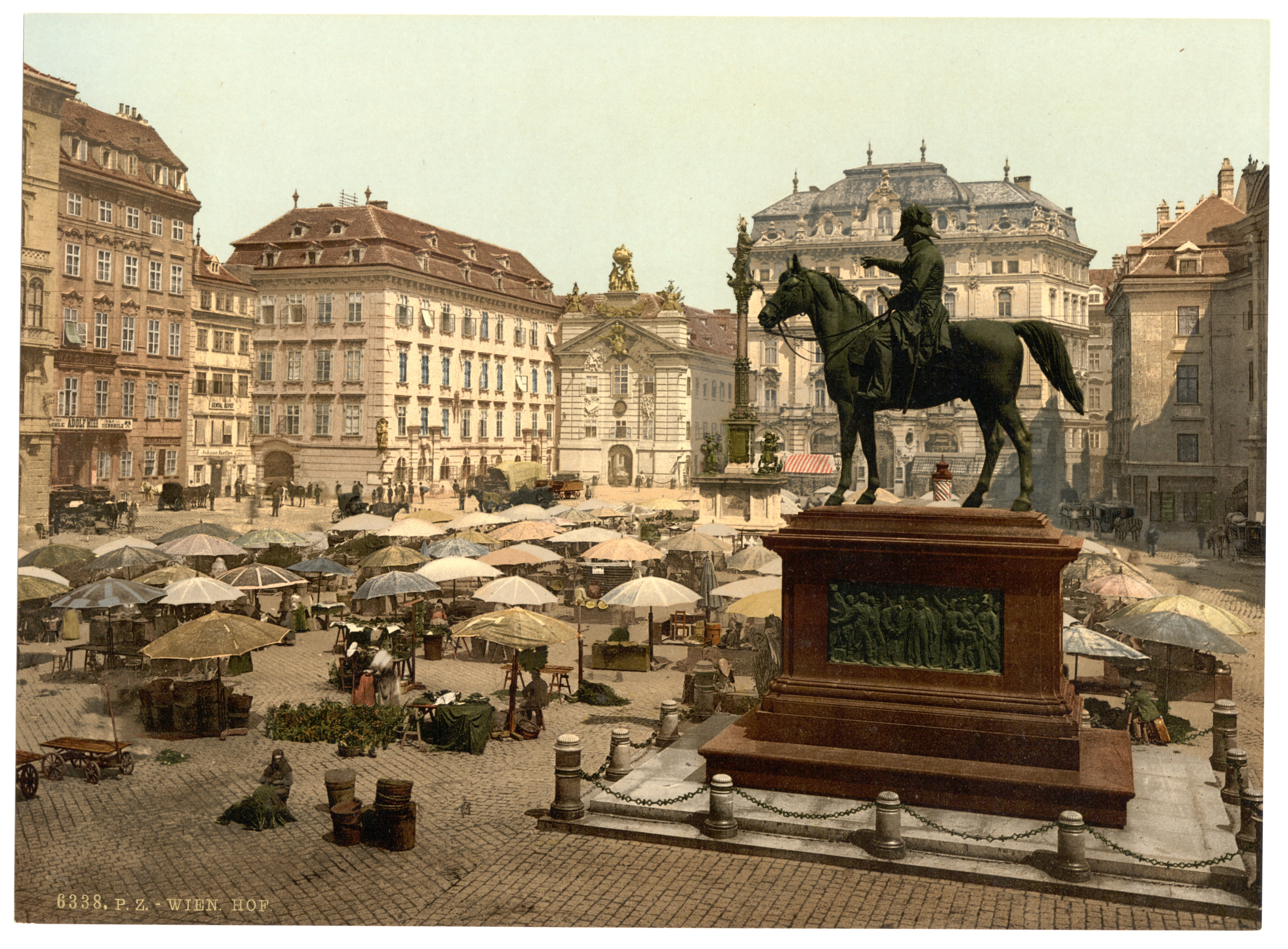 Forms part of: Views of the Austro-Hungarian Empire in the Photochrom print collection.; Print no. "6338".; Title from the Detroit Publishing Co., Catalogue J-foreign section, Detroit, Mich. : Detroit Publishing Company, 1905.